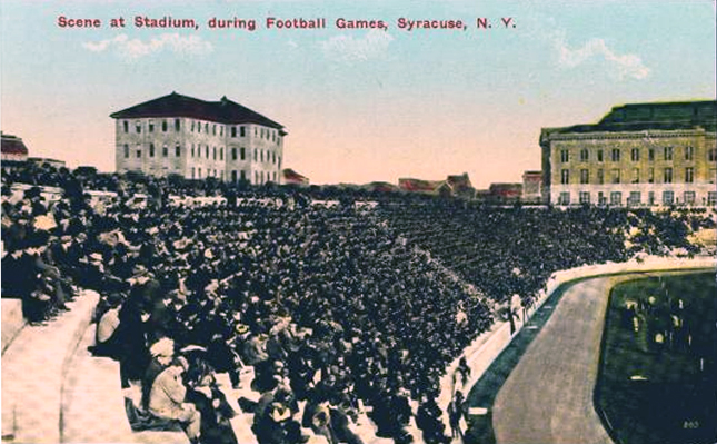 Syracuse University - Scene at stadium during football game - 1914